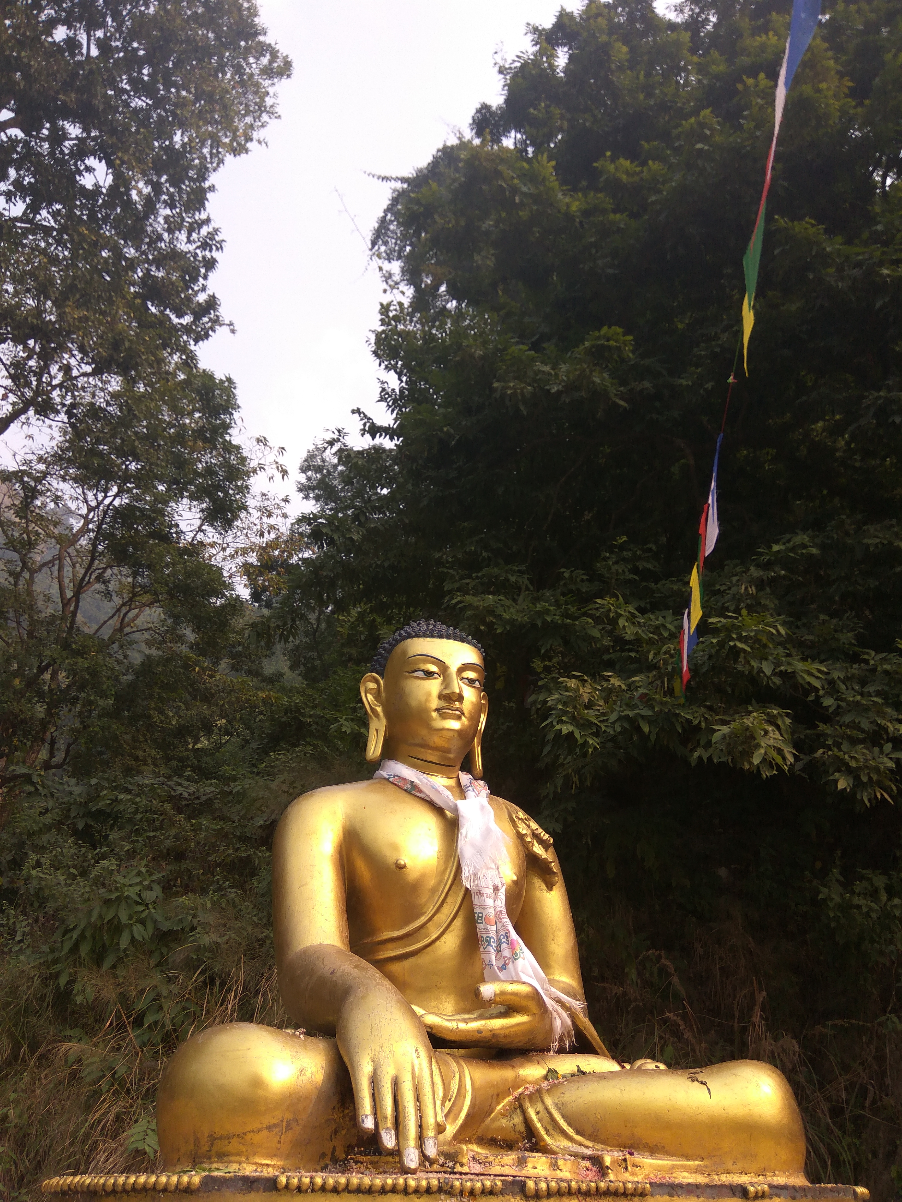 Buddha statue at Buddha Park at Karmaihiya, Sarlahi, Nepal.